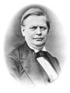 Karl Bernhard Stark (1855-1879), third professor of archaeology at Heidelberg and first one within the professorship